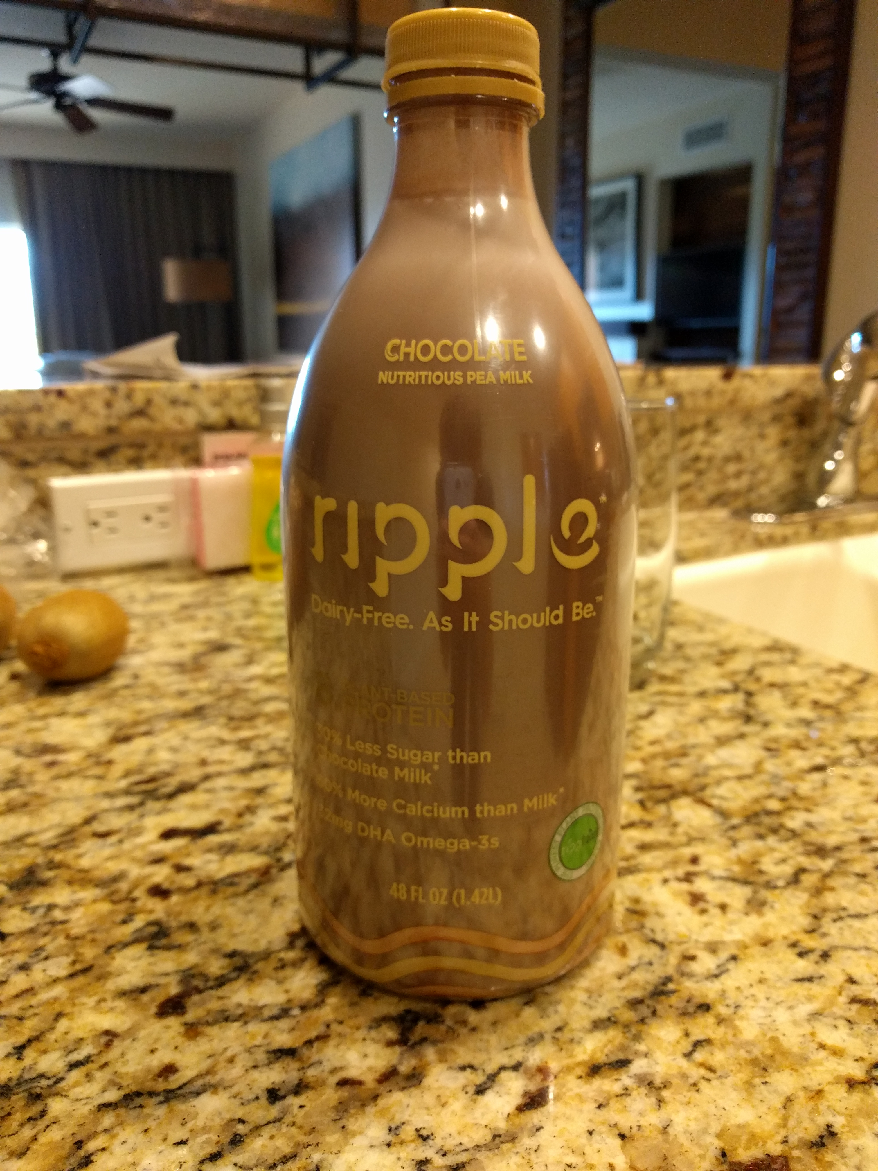 Chocolate pea milk by Ripple Foods (US version)